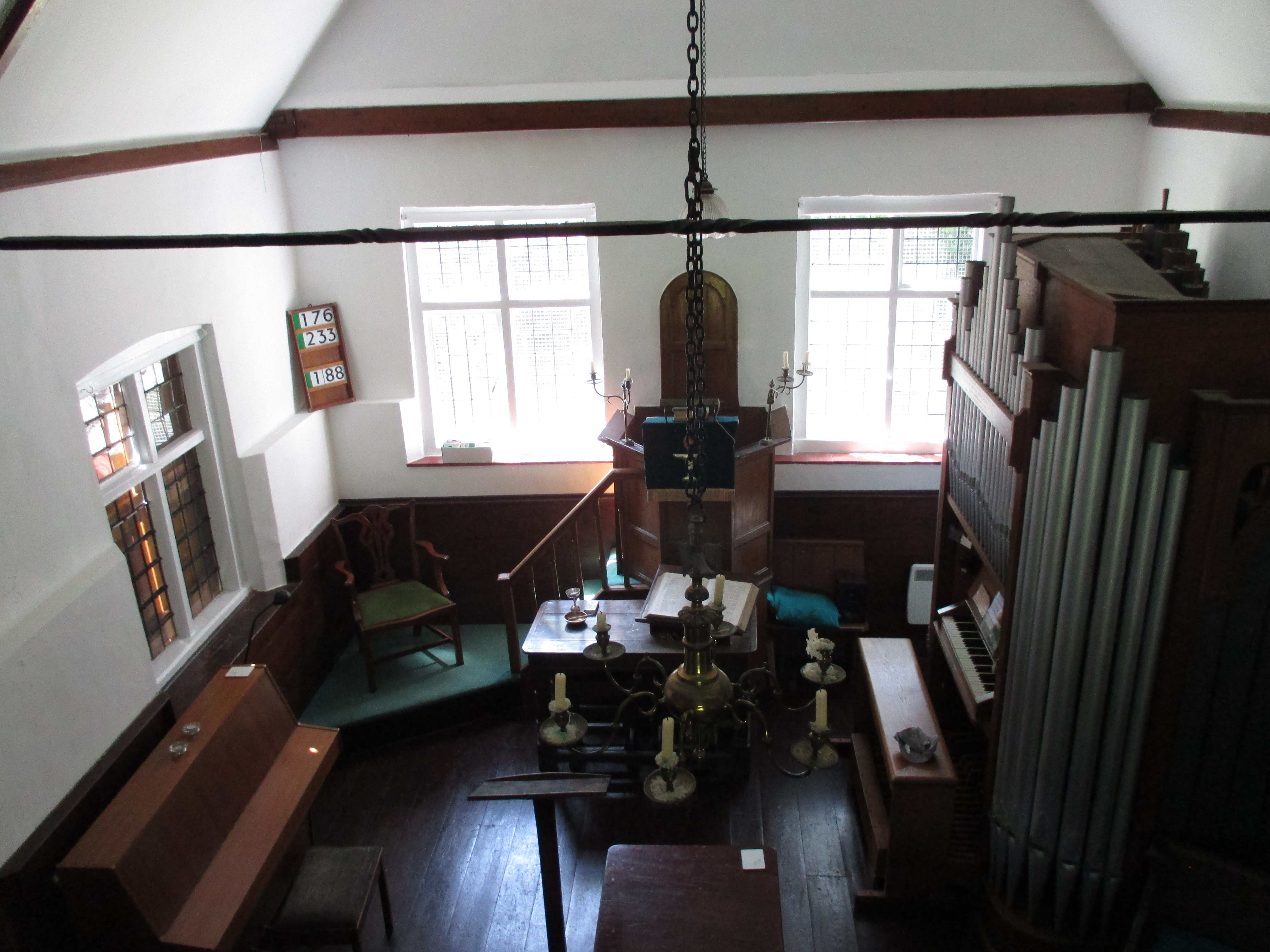 The interior of the Unitarian Chapel, Billingshurst, West Sussex, seen from the gallery.